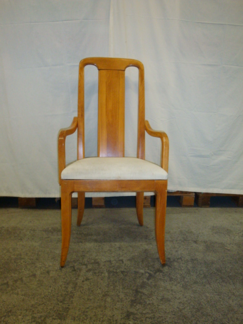 Inc:-Table, 3 leaves, 10 side chairs and 2 arm chairs, complete set.